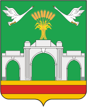 Kuban (Krasnodar krai), coat of arms